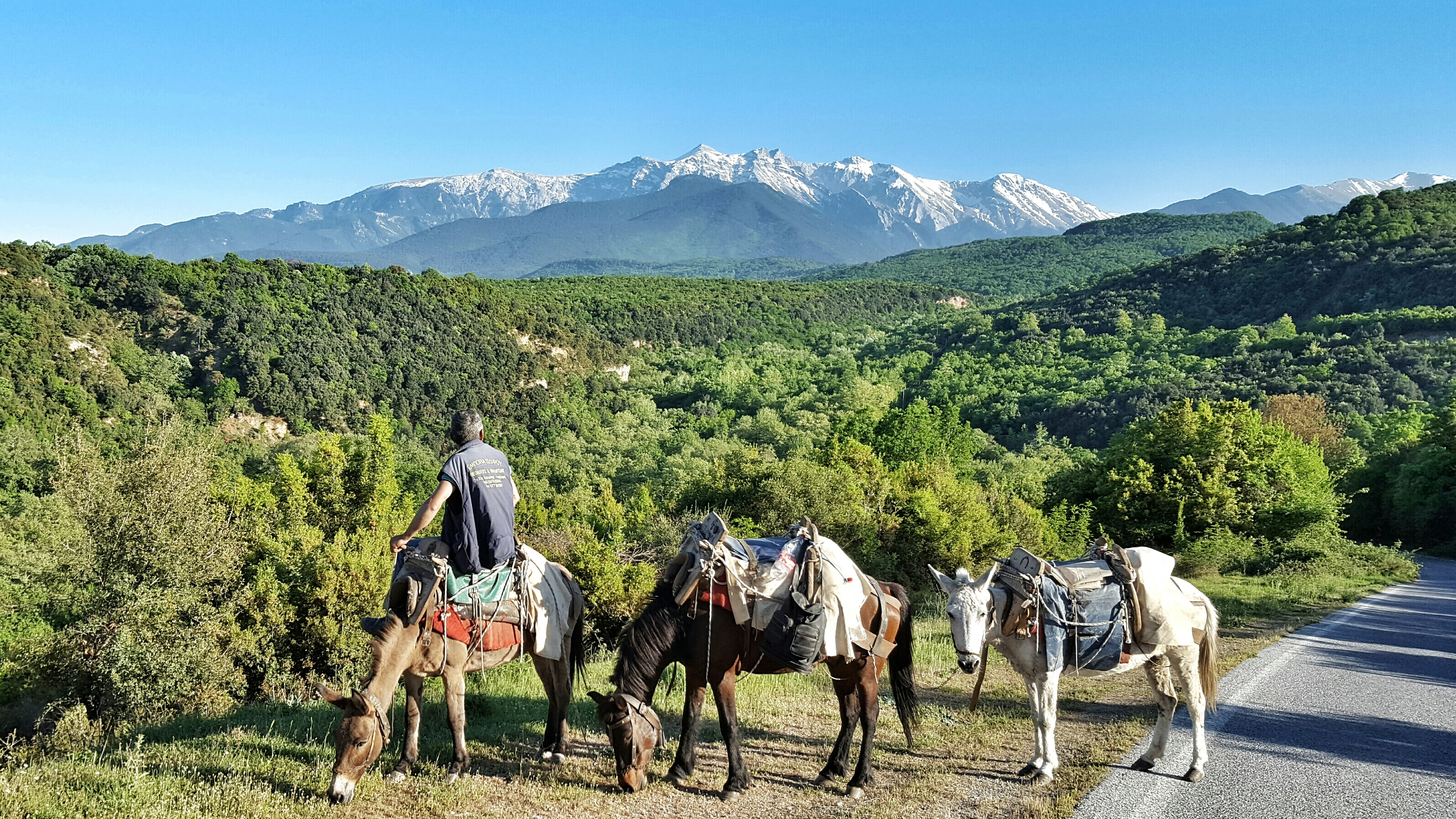 Mules with backdrop of snowy Mount Olympus, Greece - North view from Petra, Pieria